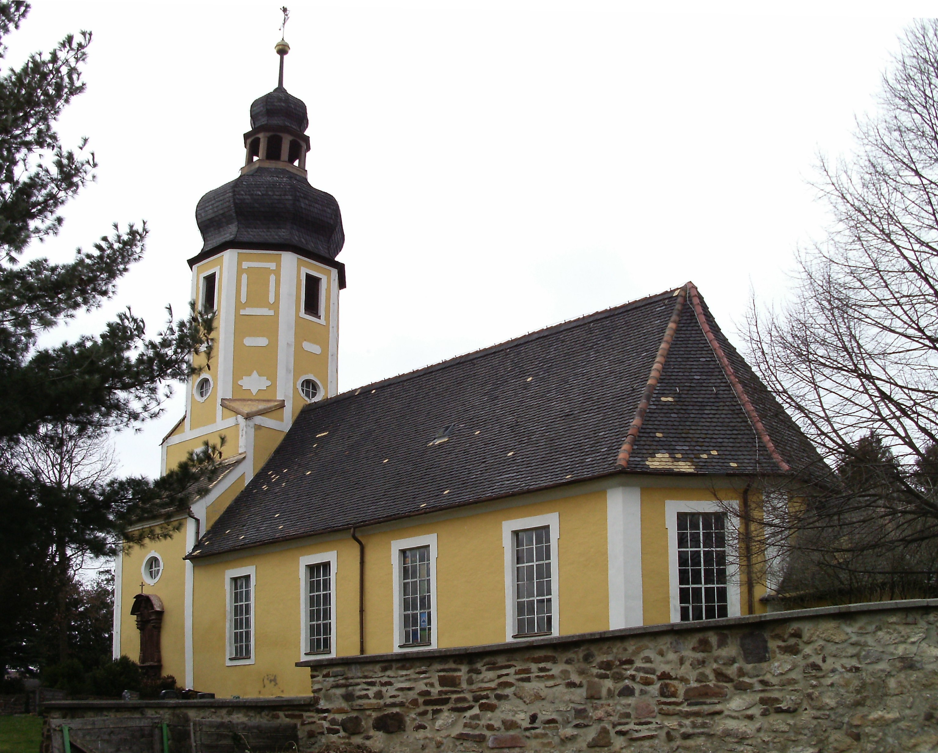 Steinbach church (Bad Lausick, Leipzig district, Saxony)